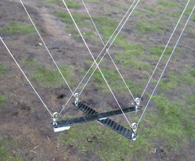 Picavet cross made from carbon fibre used to stabilise a camera suspended from a kite.